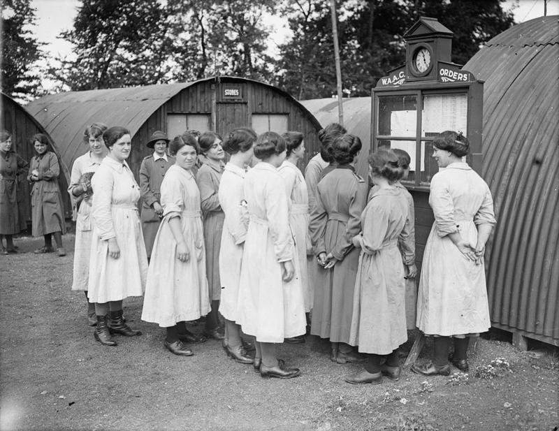 The Women's Army Auxiliary Corps during the First World War, France Women's Army Auxiliary Corps members read their orders for the day from a notice board at Abbeville, France, on 15 September 1917.